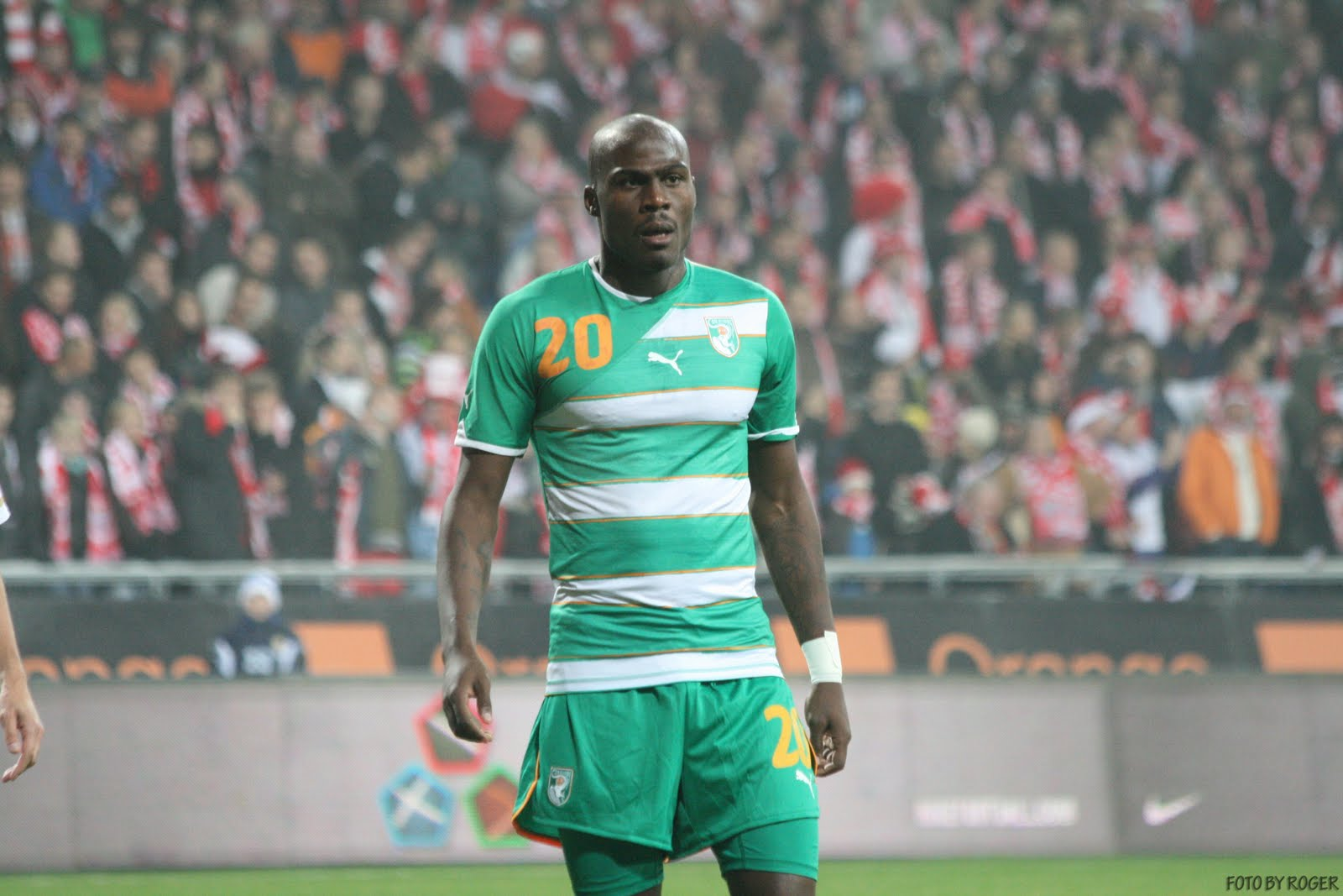 Ivorian football player Guy Demel